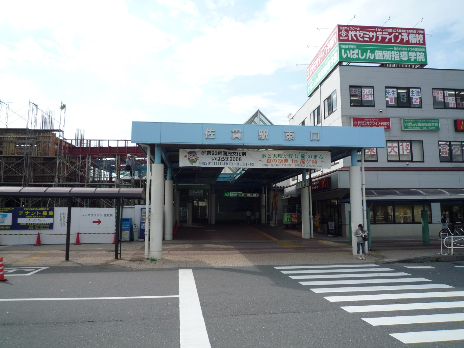 Sanuki station East exit